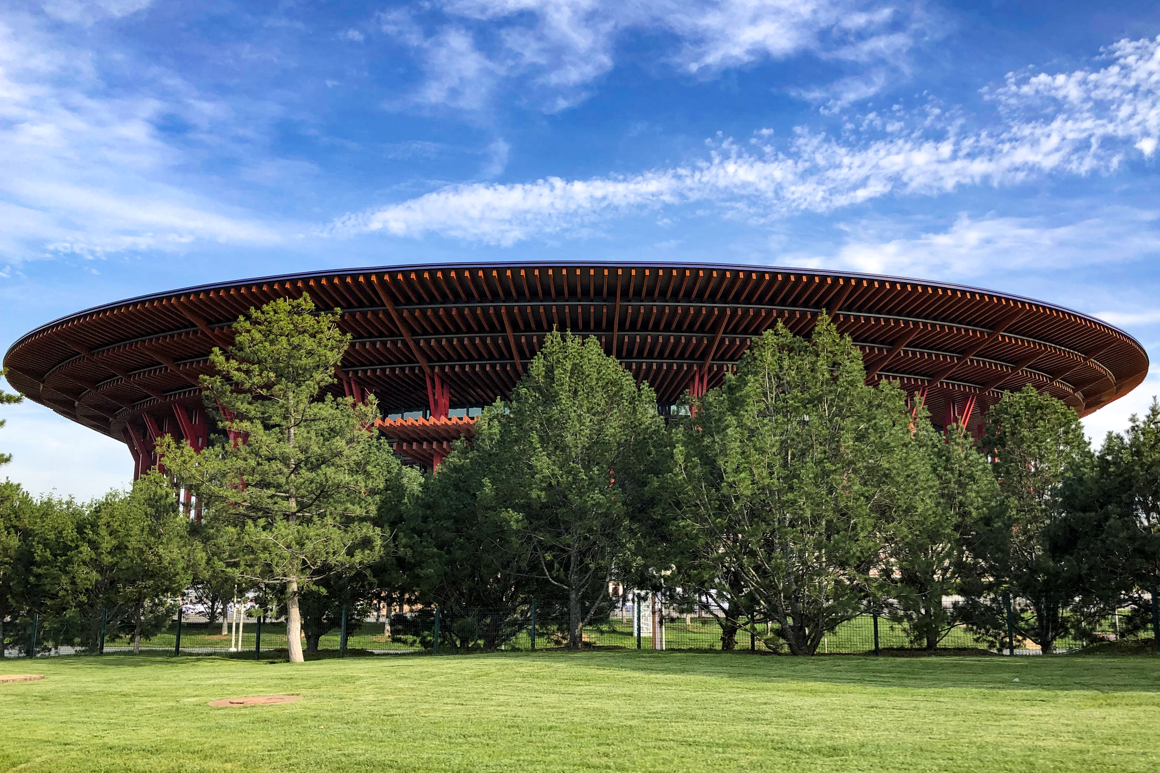 Didn't find a better angle...